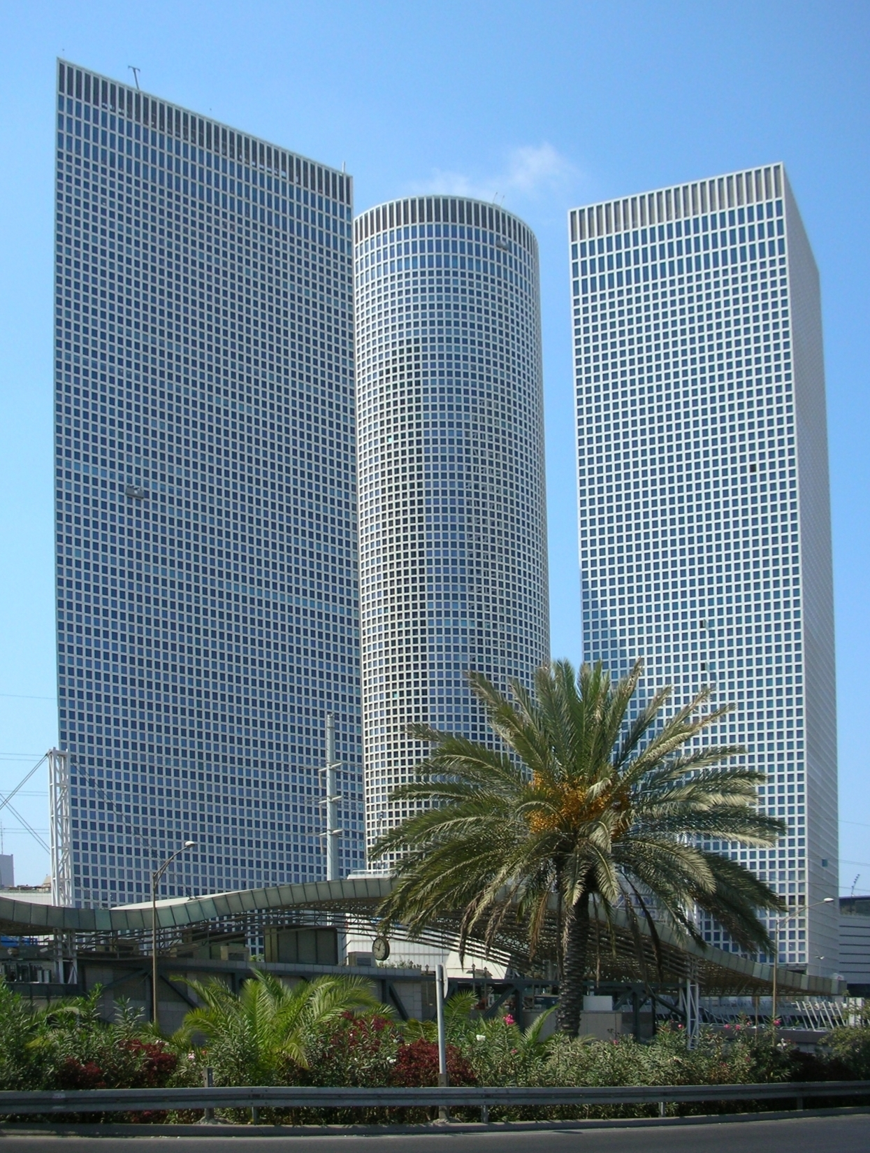 The Azrieli Center, a complex of three skyscrapers in Tel Aviv.